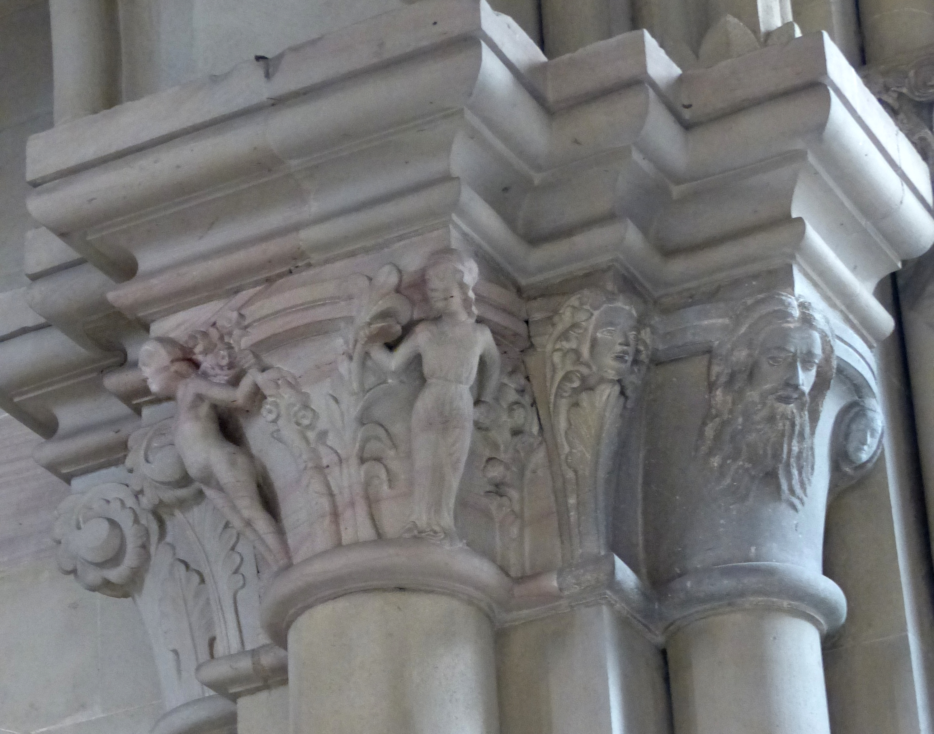 Chapital of the fouth (counted from the east) outer pilar of the ambulatory, showing the paradise: form the left Adam (see also File:MD Dom538Chorumg Außenkapitell N4 nackt.JPG), without a beard but with moderately visible genitals, Eve in a women's dress, tne head of the snake, rising out of a plant, the Tree of the knowledge of good and evil, then Godfather's bearded head, at last an unedintifiable small head.